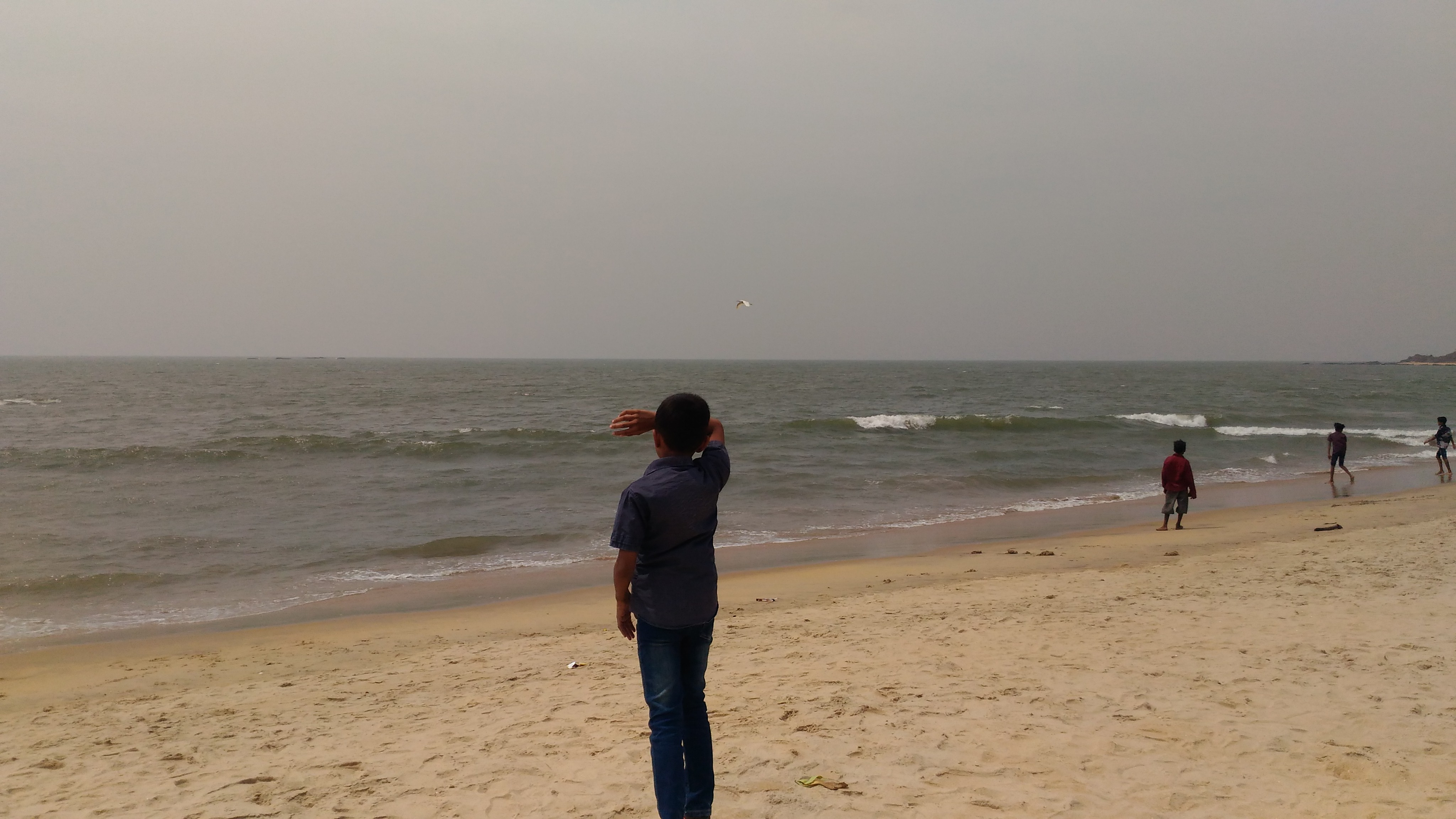 At thrikkannad